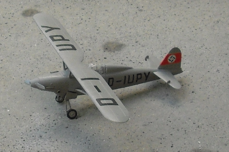 Model photo Focke-Wulf Fw 159. More pics of the same model now are on On request I can share them here at wikimedia.